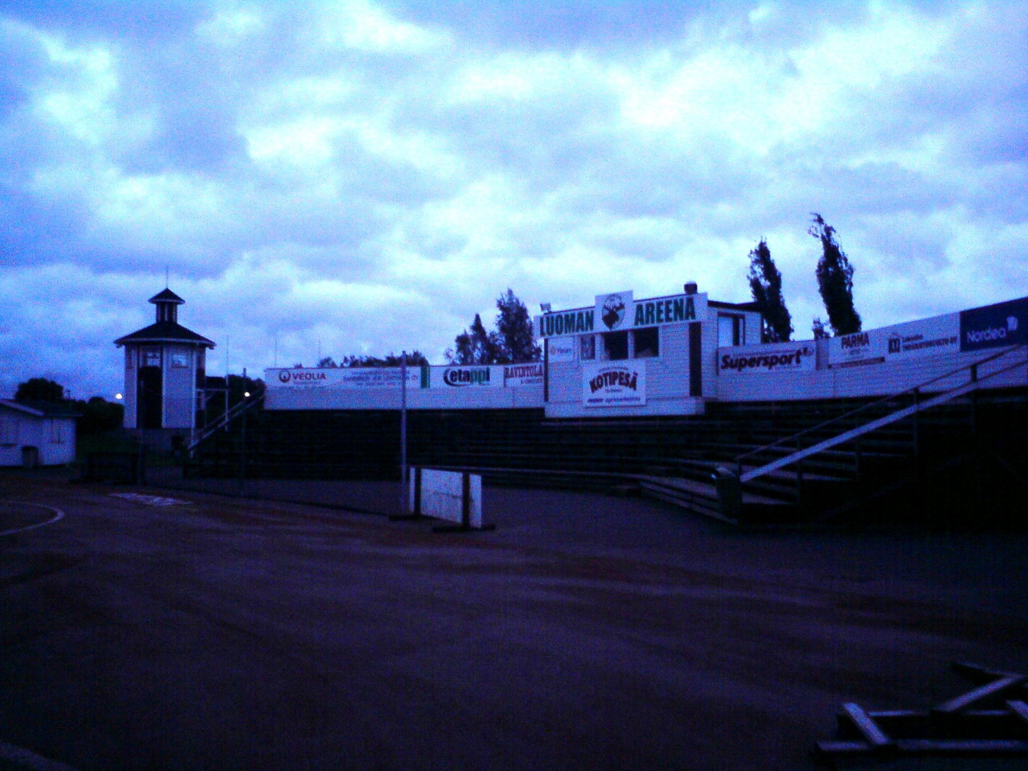 Luoman Areena/ Ylistaro's baseballstadium in Ylistaro, Seinäjoki, Finland